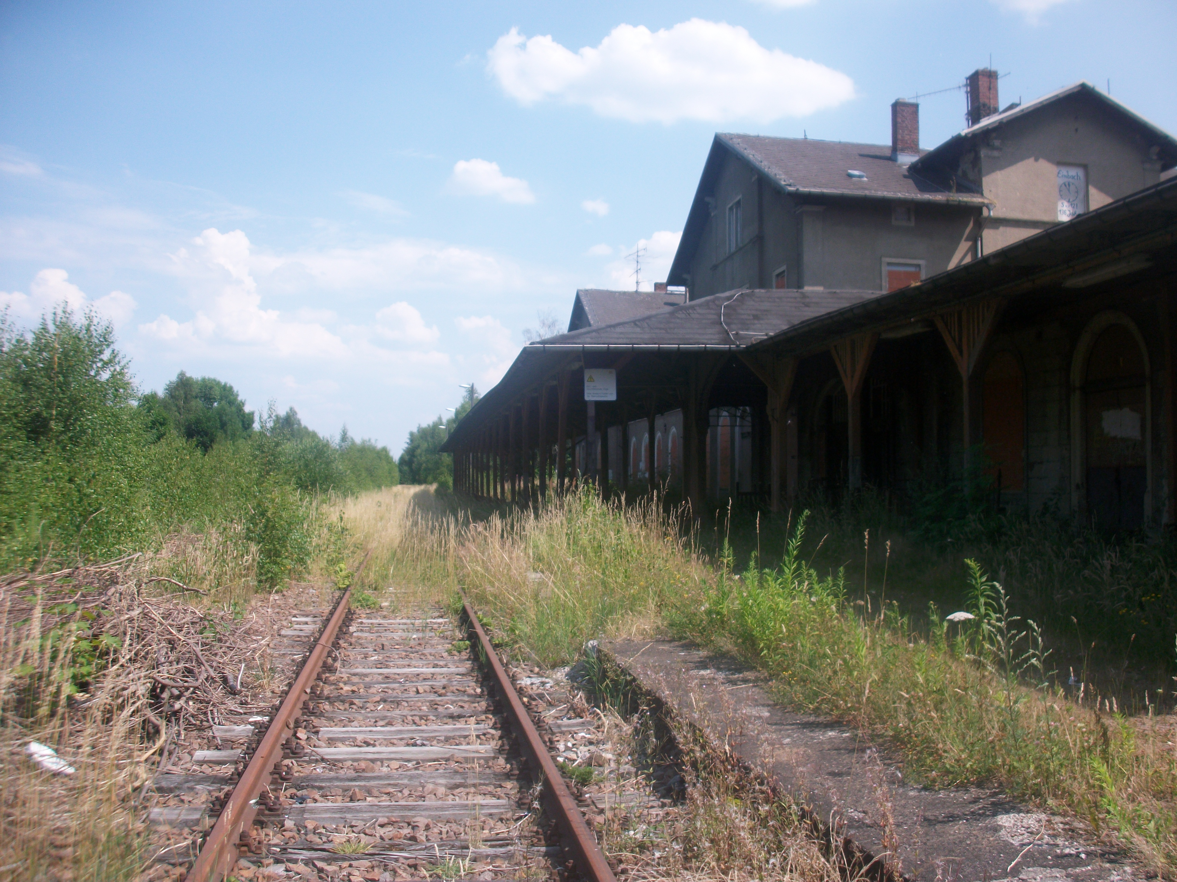 Station Limbach (Sachs) out of order.